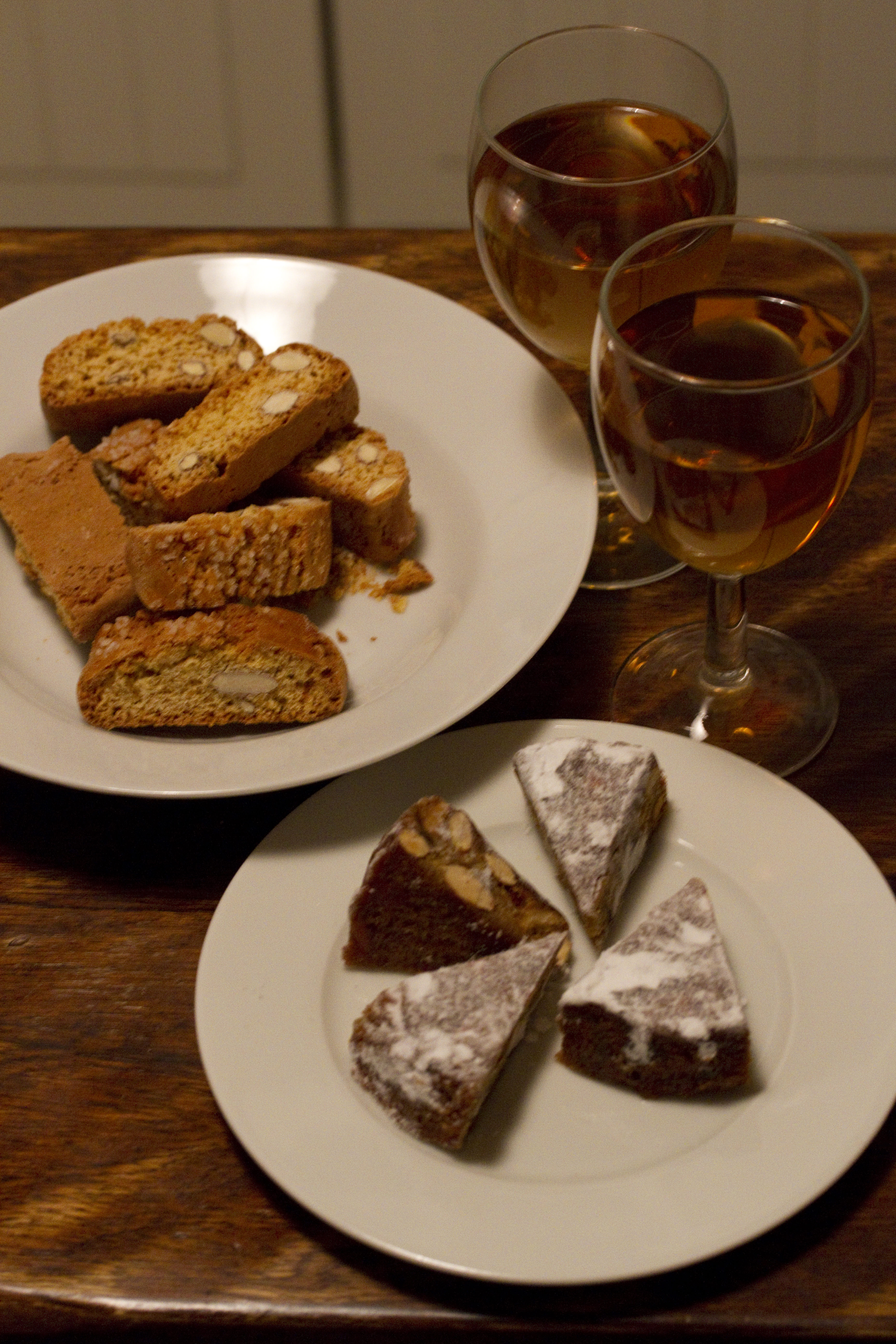 Biscotti di Prato, panforte and some Vin Santo.